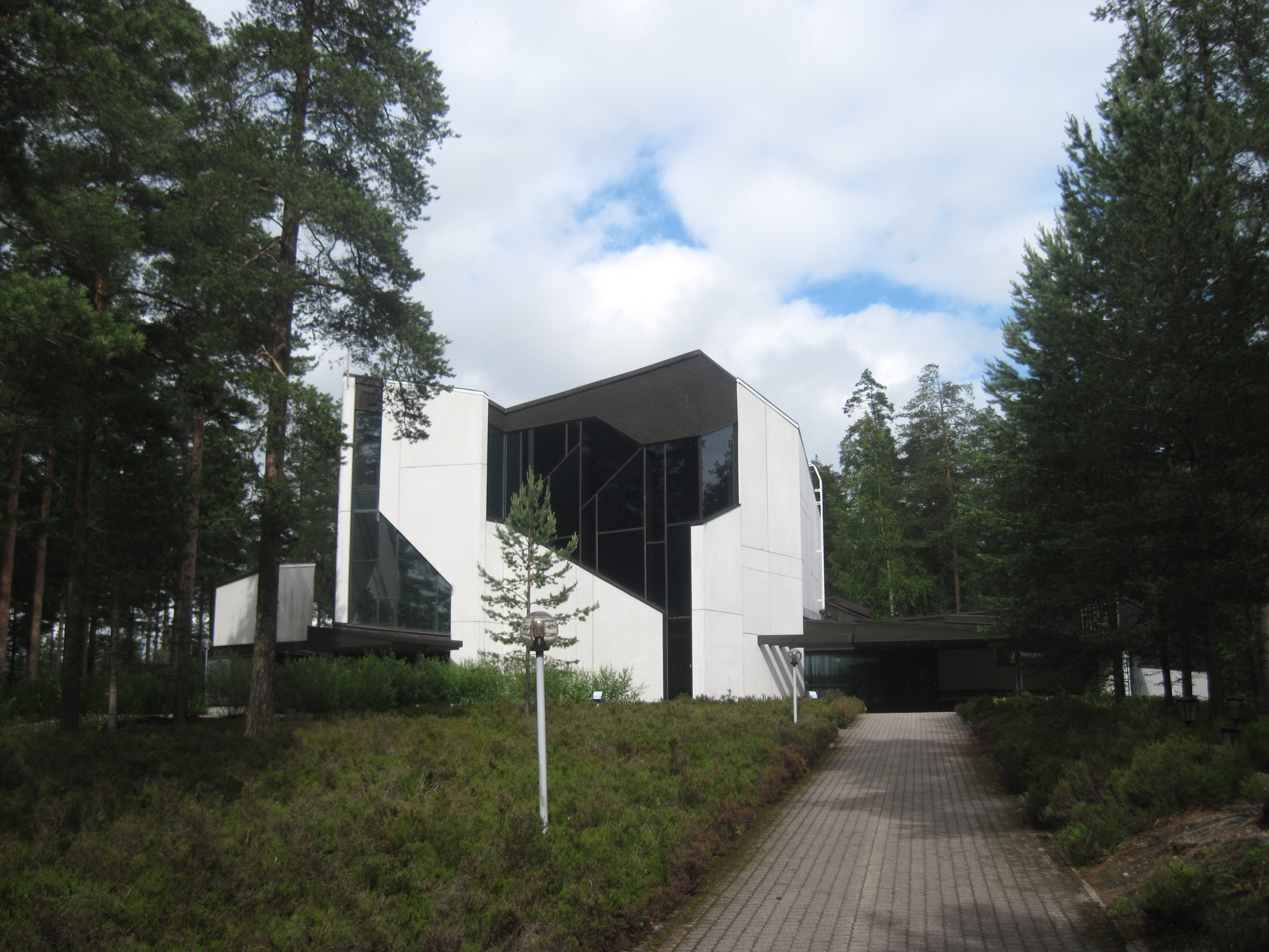 New chapel at Paijala, Tuusula, Finland